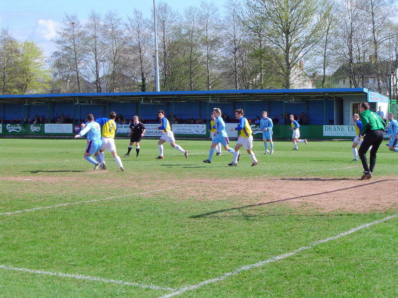 Wordsworth Drive, home of Taunton Town FC. The game is between Taunton in sky blue and claret, and Team Bath. The away side won 1.0.